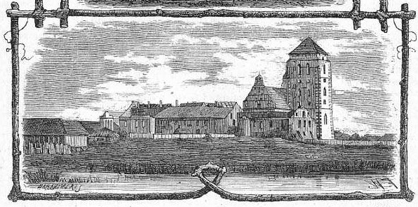 Dominican Monastery in Starokostiantyniv.